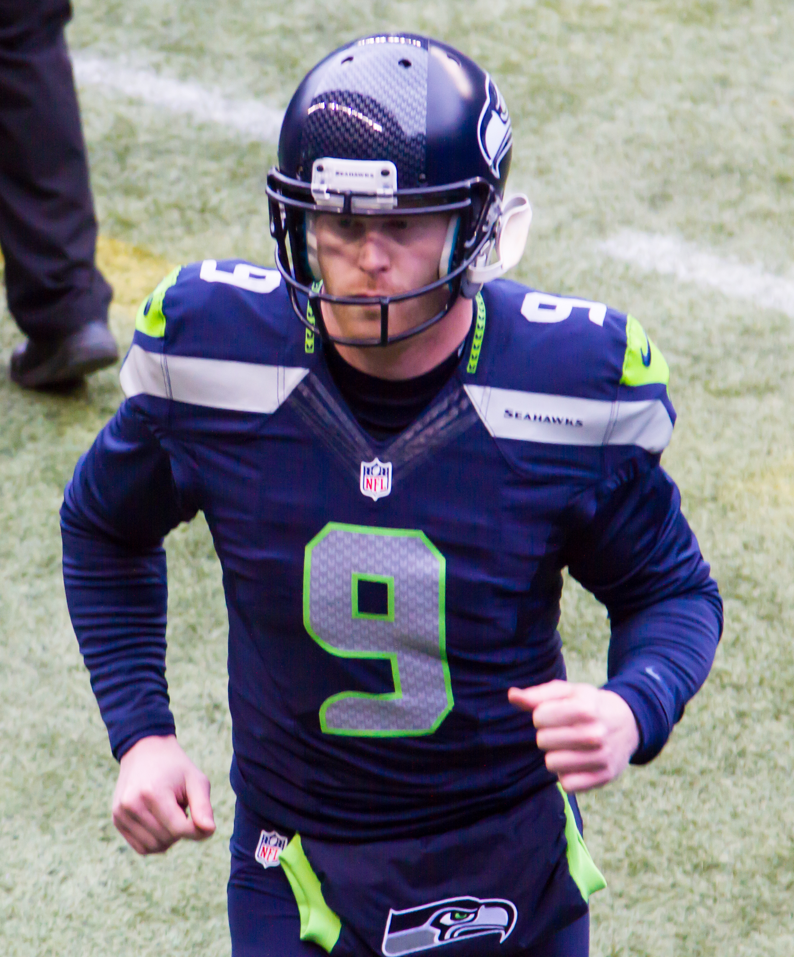 Jon Ryan, Seahawks vs Rams 12.29.13